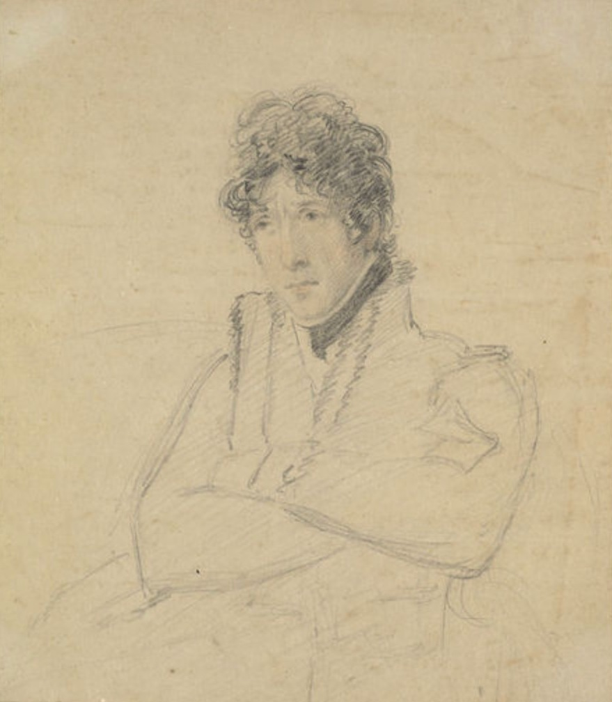 Pencil drawing by Nathaniel George Philips of the actor Charles Mayne Young 1777-1856), early 19th century.